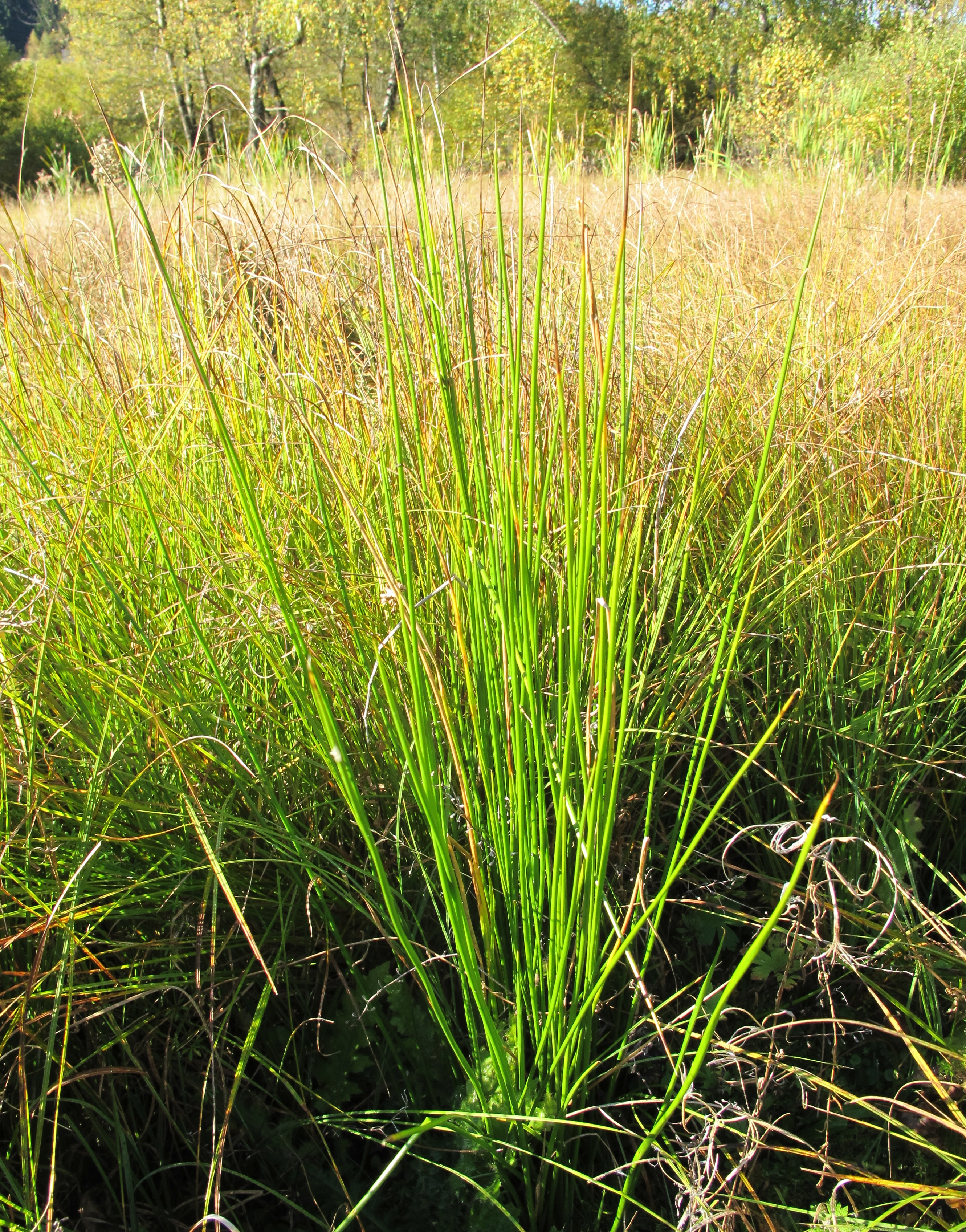 Nature reserve Malá Strana near Lučany nad Nisou (Horní Maxov) in Jizera Mountains, Jablonec nad Nisou District in Czech Republic